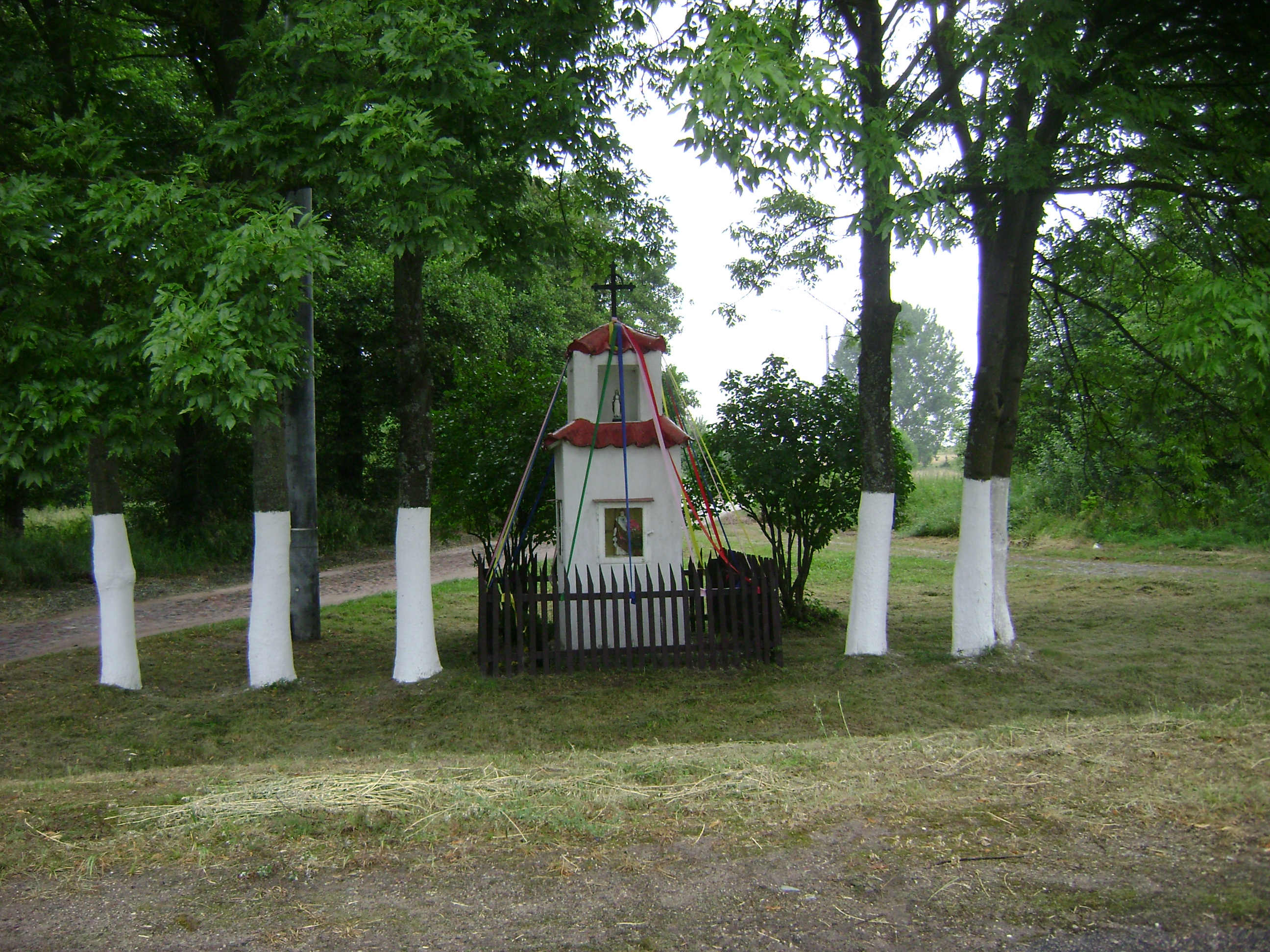 Leleszki